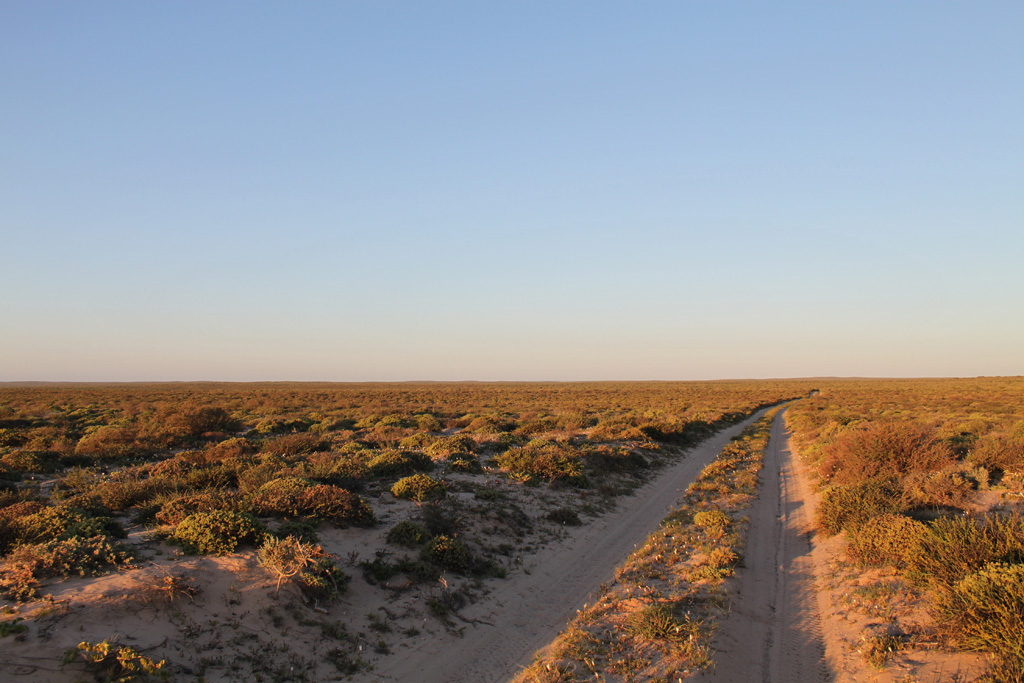 A desert road on the property of Die Houthoop in the Namaqualand desert. Kleinsee, Northern Cape, South Africa.